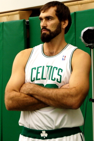 Display of Scot Pollard of the Boston Celtics at NBA Media Day on September 28, 2007.